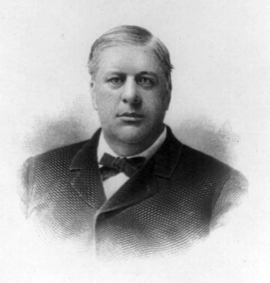 Wilson S. Bissell, Postmaster General of the United States (1893–95). Steel engraving by the Bureau of Engraving and Printing.